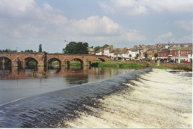 Dumfries - Weir and Old Bridge